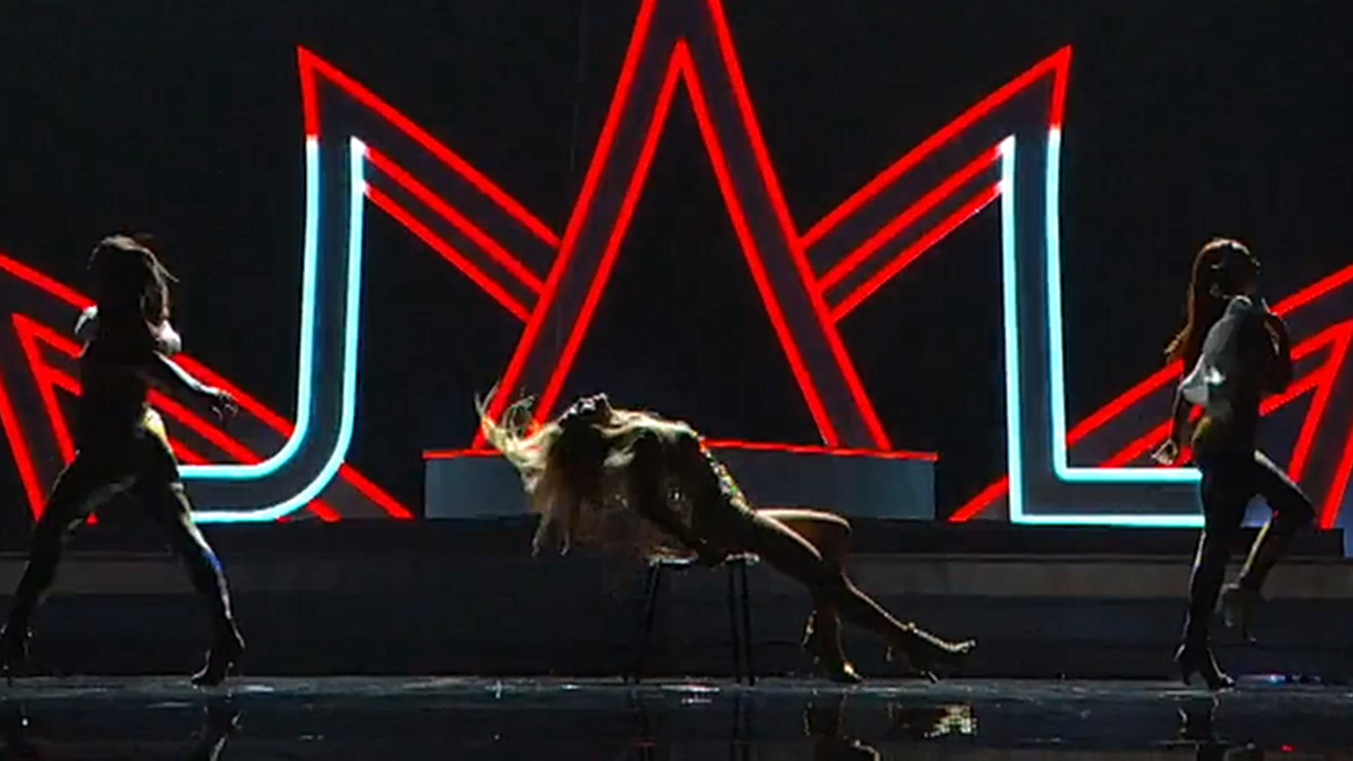 Jennifer Lopez performing at the Video Music Awards in New York City, on August 20, 2018.